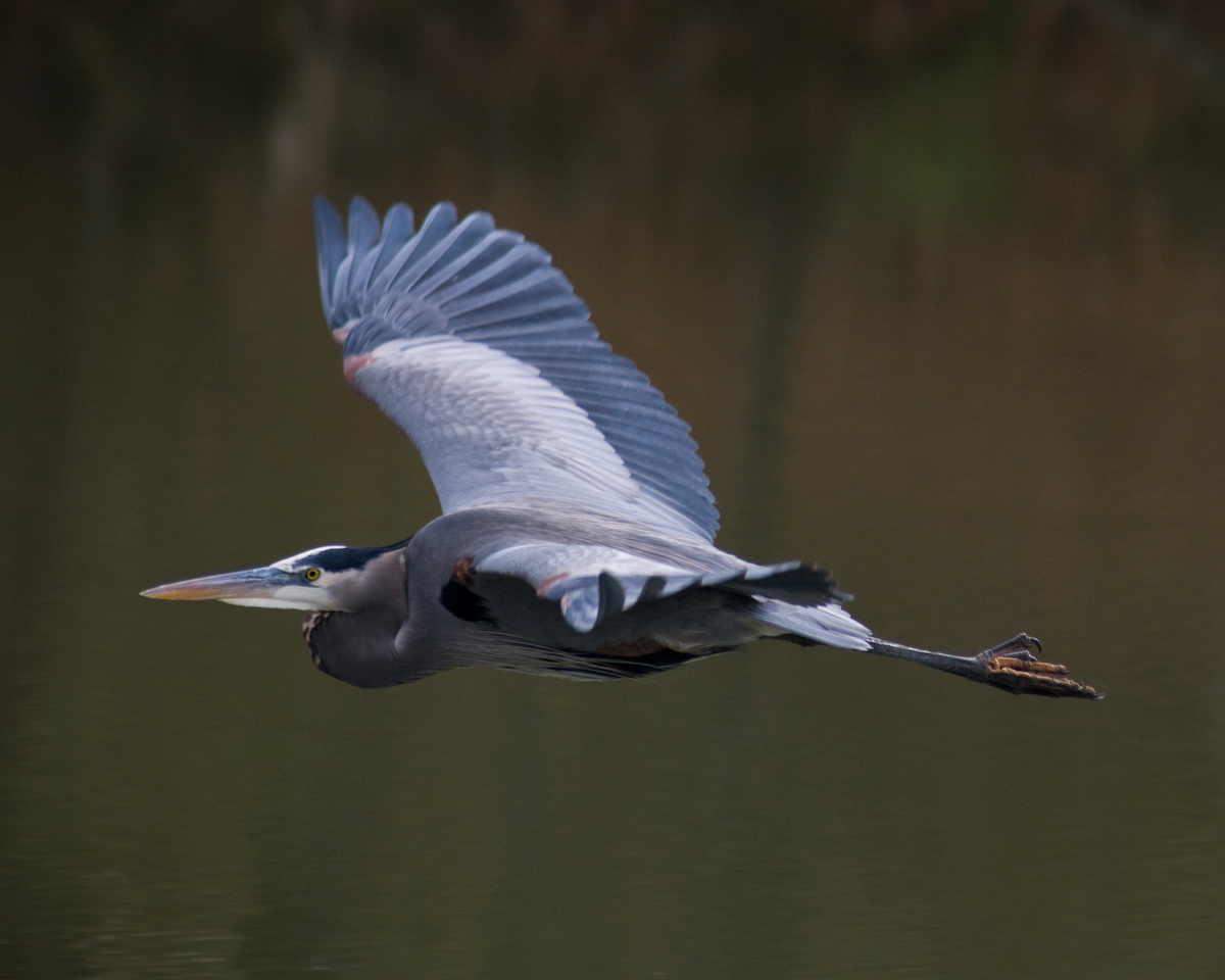 Great Blue Heron in Flight, Shelbyville, Kentucky